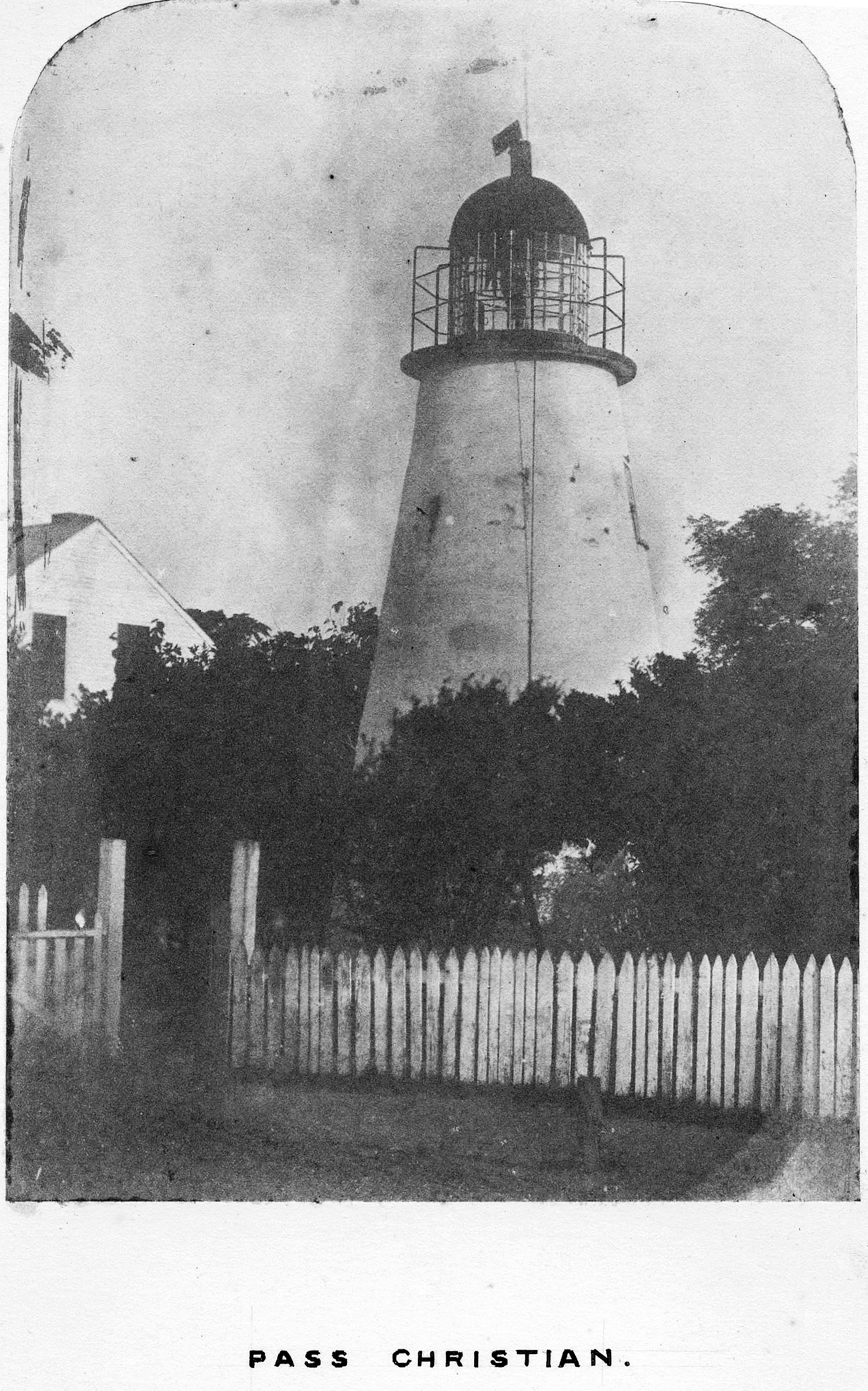 Undated photograph of Pass Christian Light